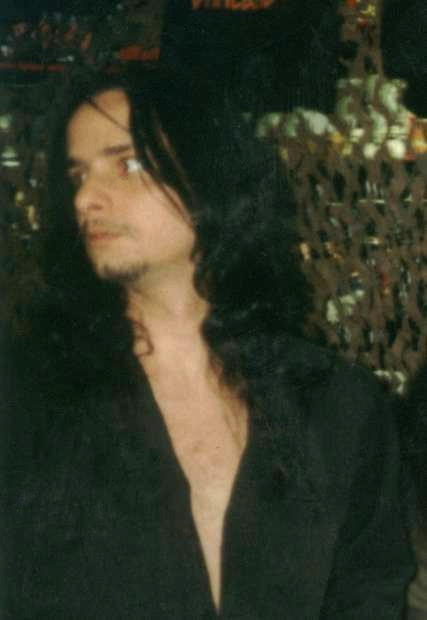 Kenny Hickey of Type O Negative, photographed at an in-store signing in London, England, circa 1997. Photo taken by my wife, who gives permission for it to be released under the GFDL